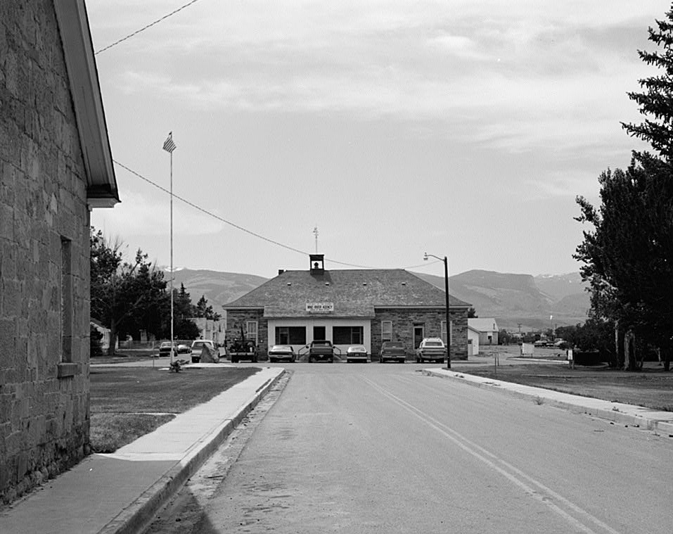 Fort Washakie Building #1 in Fort Washakie, Wyoming, United States. Located at the intersection of Washakie and Second Streets, it is a part of the Fort Washakie Historic District, which is listed on the National Register of Historic Places.